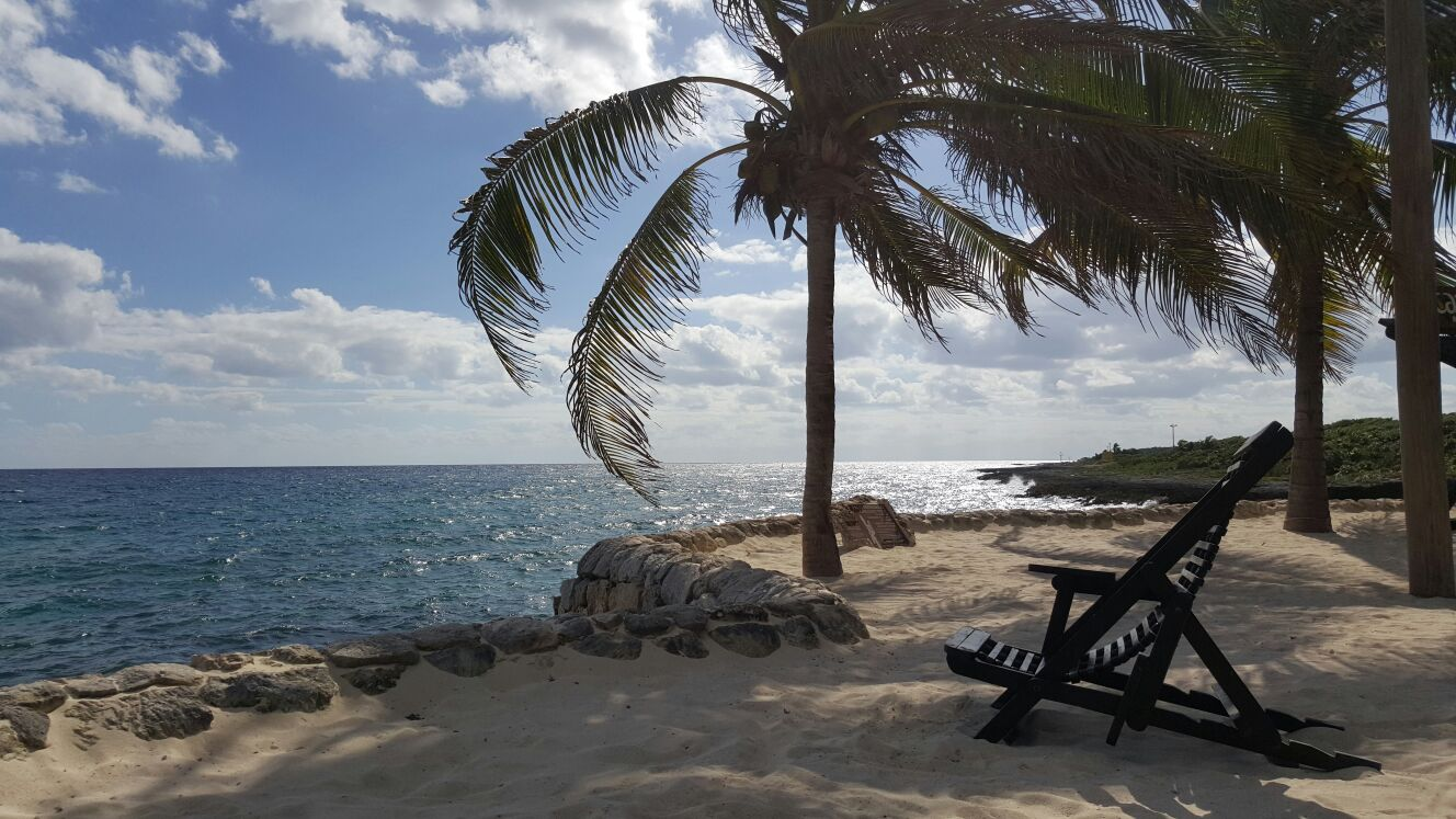 The Beach at Xcaret Park, in Quintana Roo